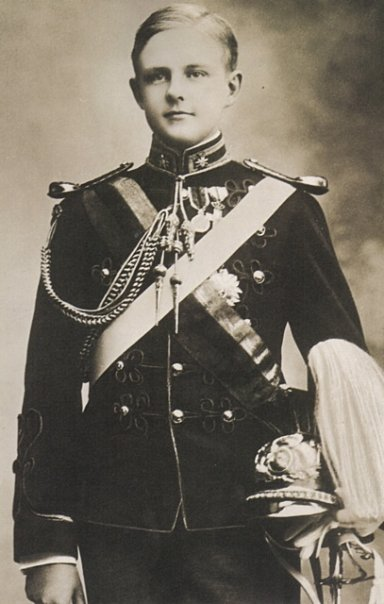 SAR O Principe Real de Portugal Luis Filipe